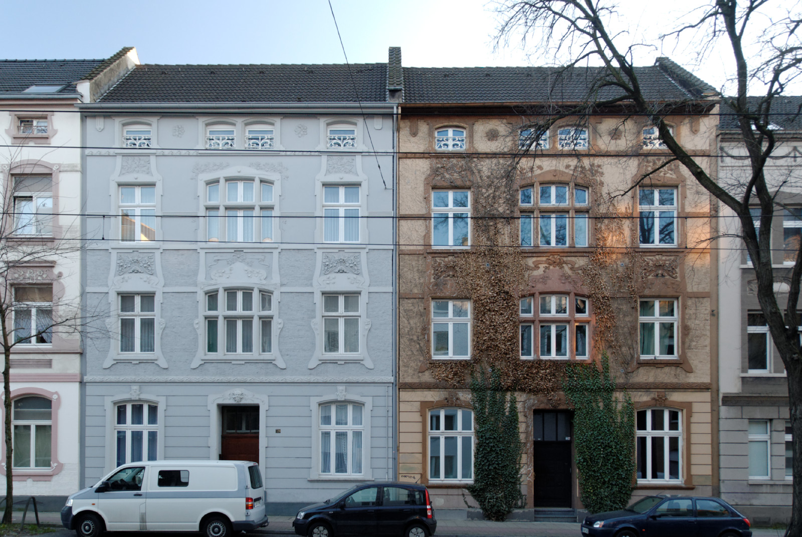 Houses Oberbilker Allee 327 und 329 in Düsseldorf-Oberbilk, Germany